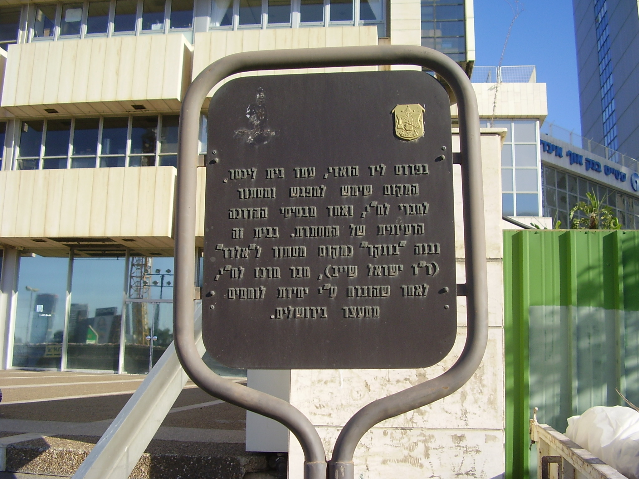 lehi underground memorial in ramat gan